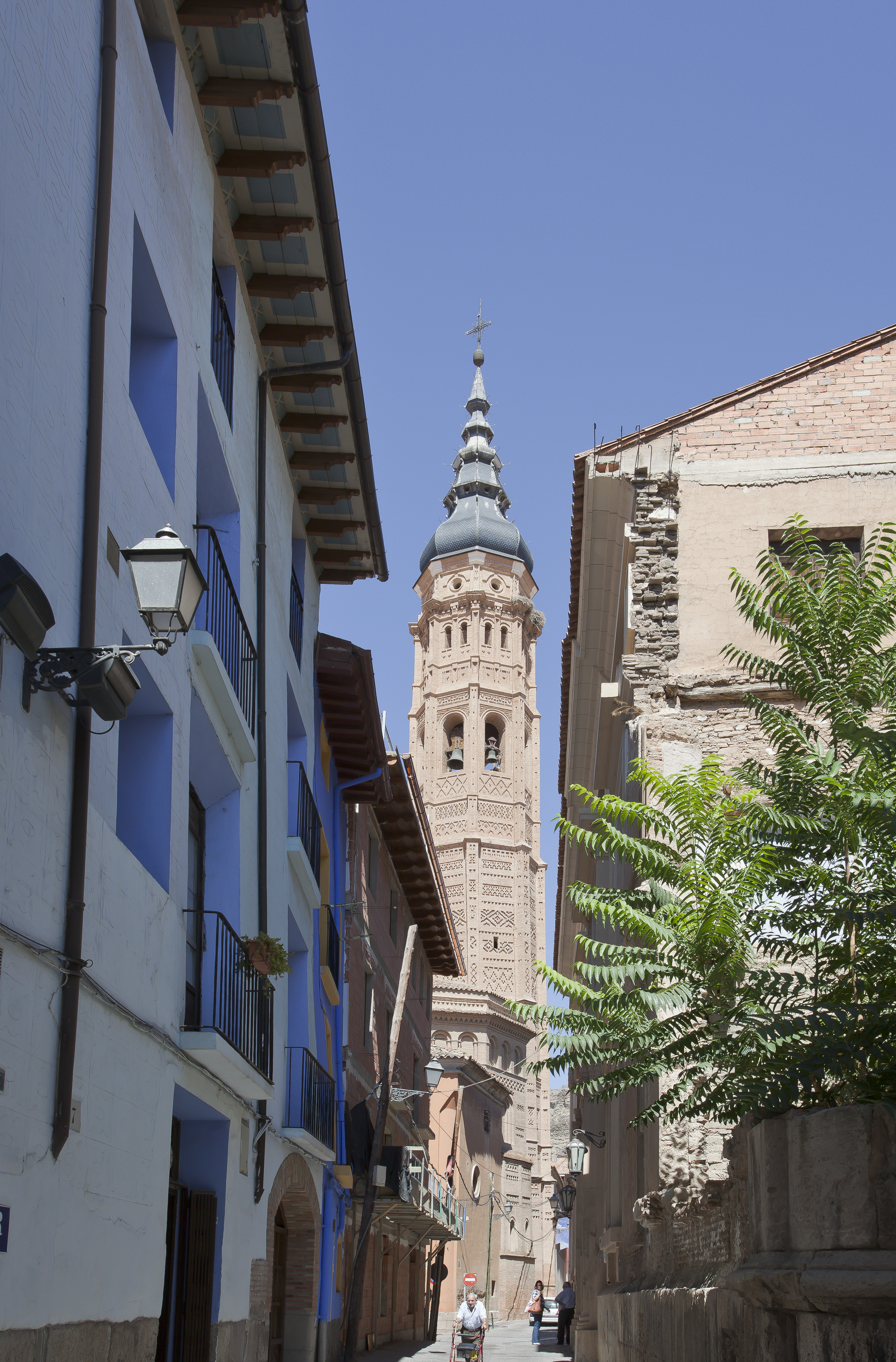 Colegiate church of Santa María la Mayor, Calatayud, Spain